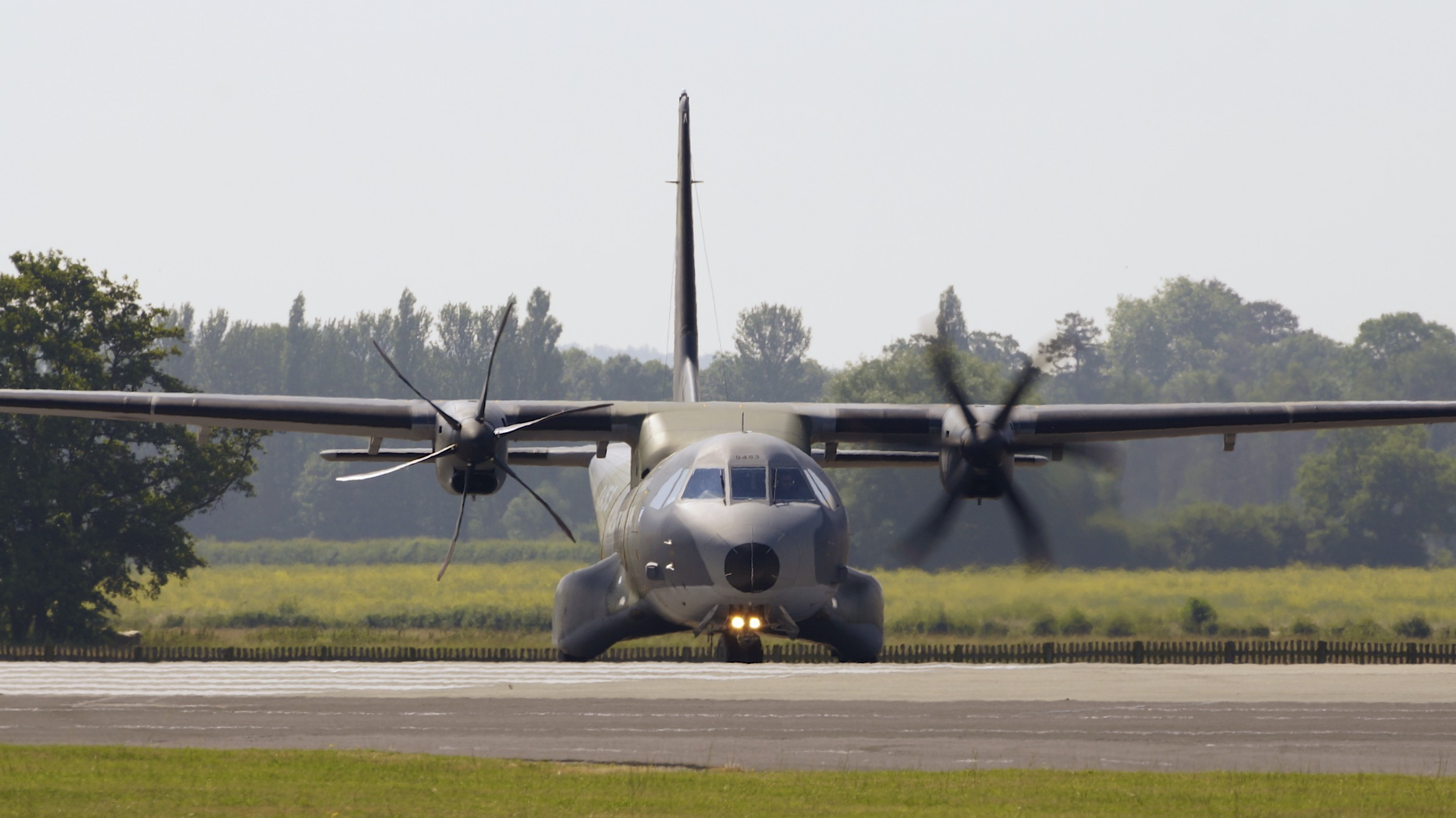 An interesting day out for photographers only on the day prior to the actual airshow.